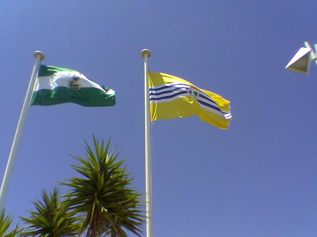 Isla Cristina´s flag in its harbour. July-2008